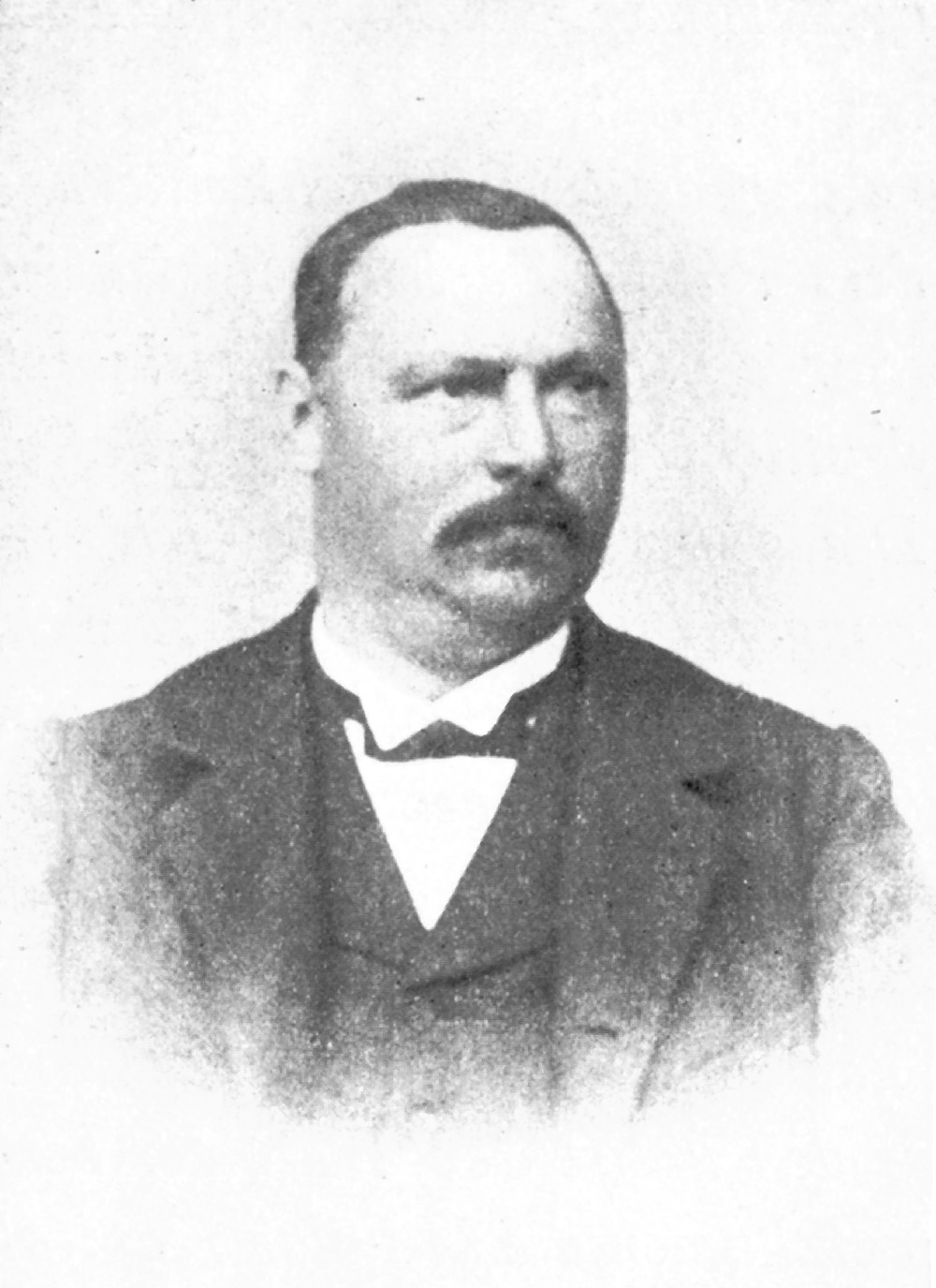 Joseph Boesch, was President of Brewery "Aktienbrauerei Zürich" from 1896 to 1913